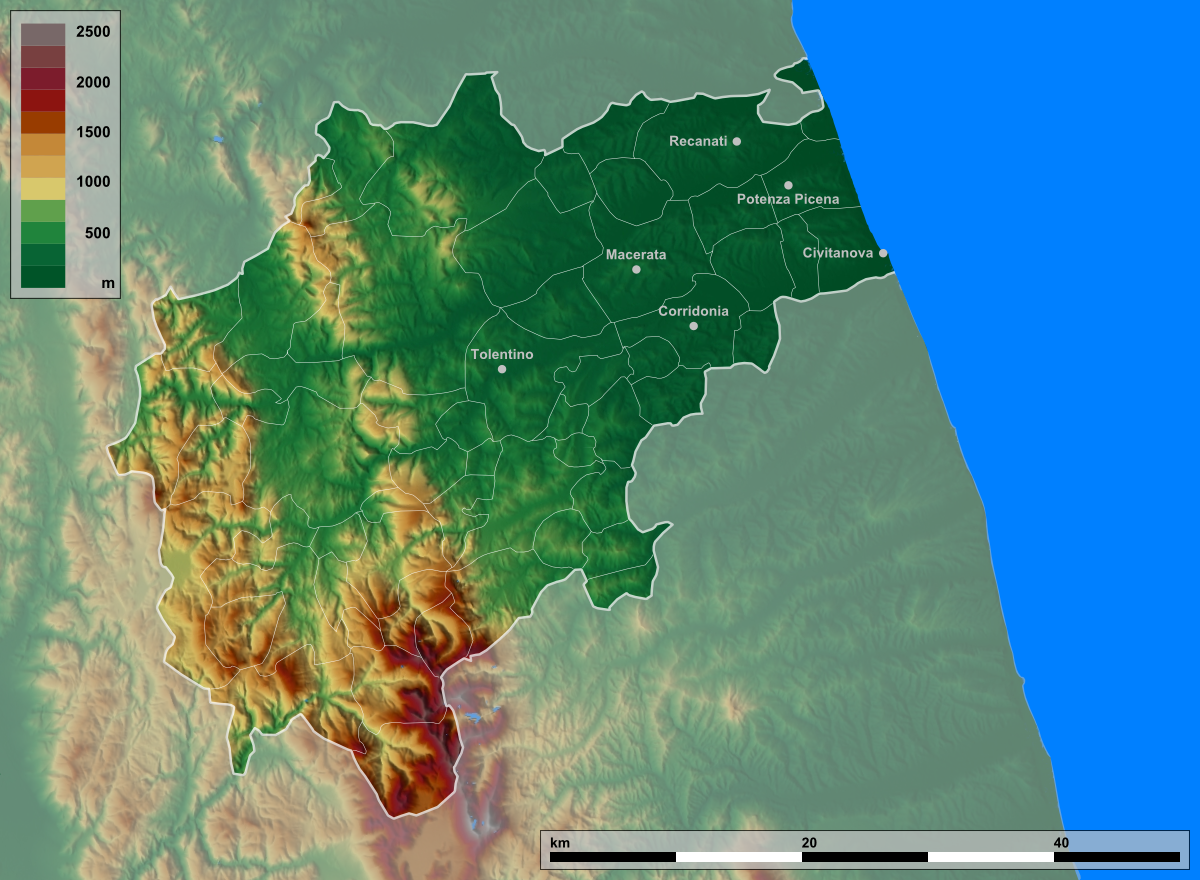 Map created with 3DEM from SRTM ( Administrative boundaries from OpenStreetMap.